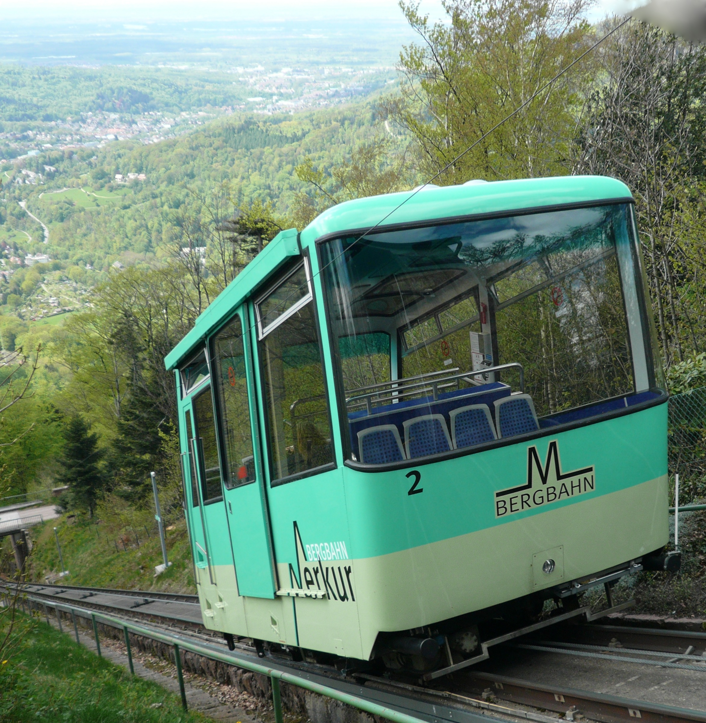 Funicular to mountain Merkur near Baden-Baden